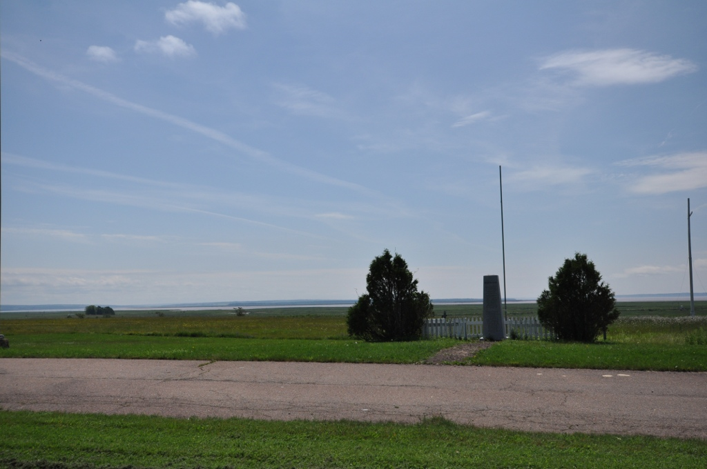 Marker denoting location site of the colonial Acadian village of Beaubassin; Fort Lawrence, Nova Scotia. Tantramar Marshes are in background.